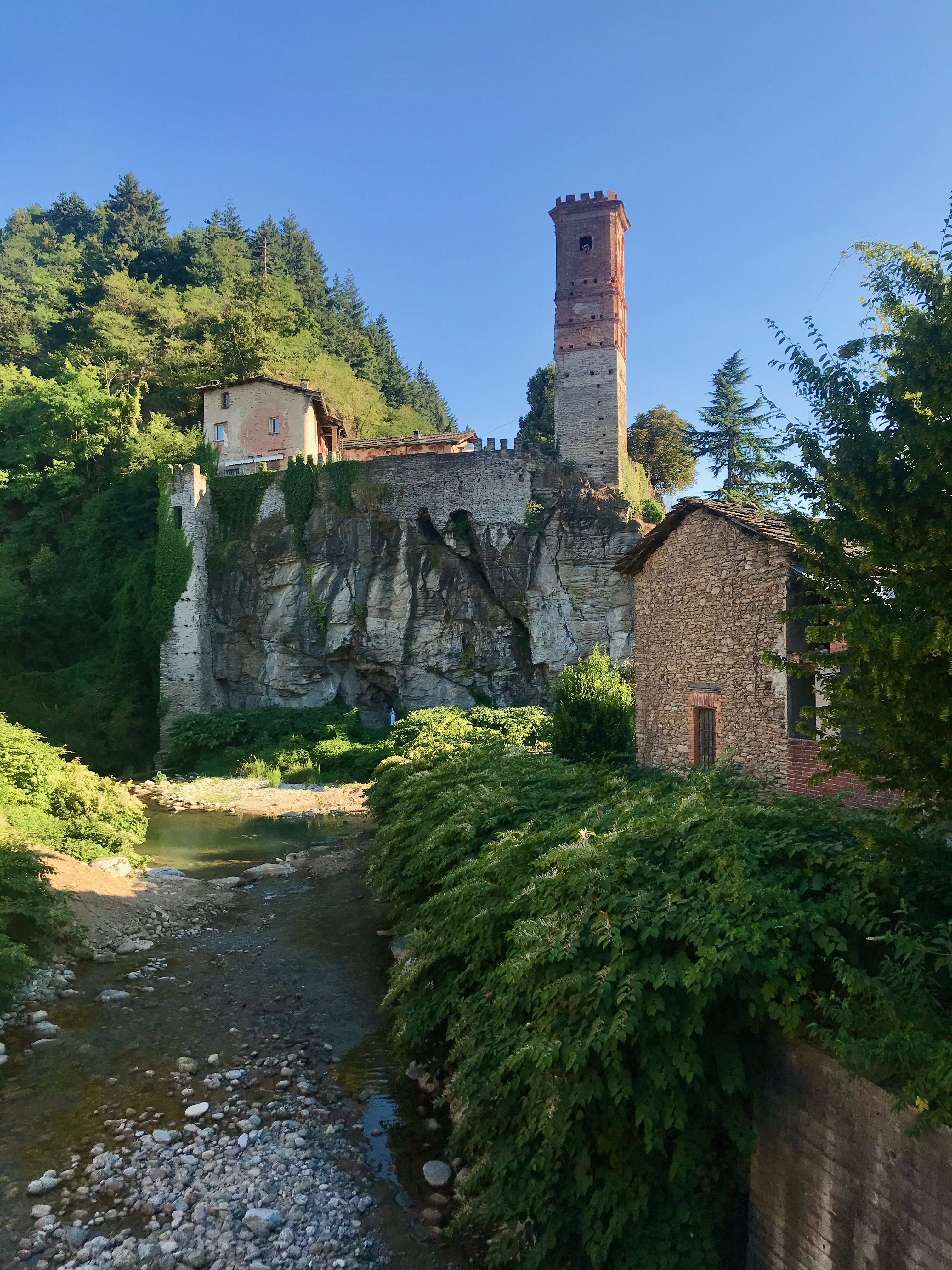 Castello Inferiore or Castelnuovo in Barge, Piemonte